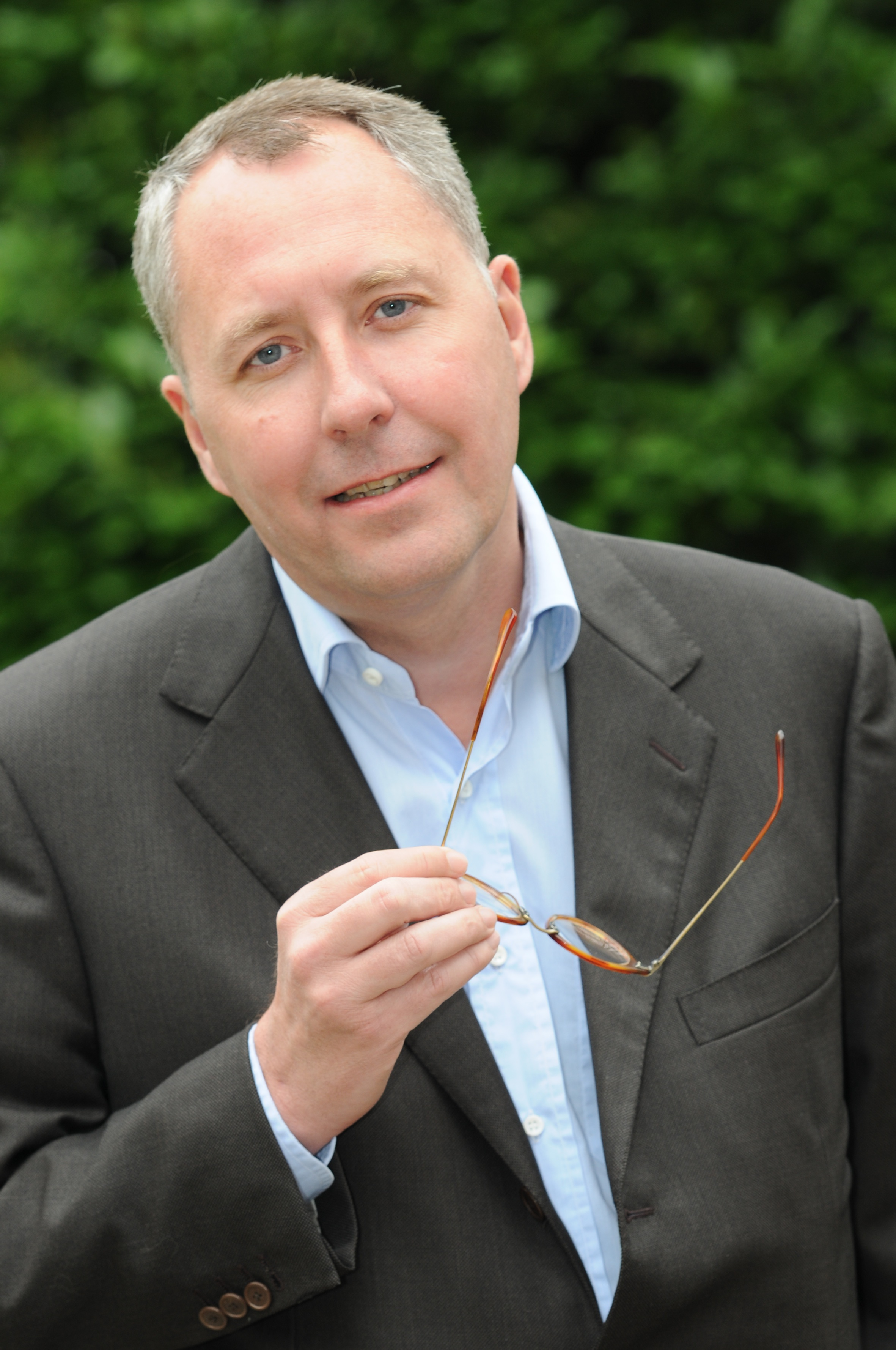 Mischaël Modrikamen